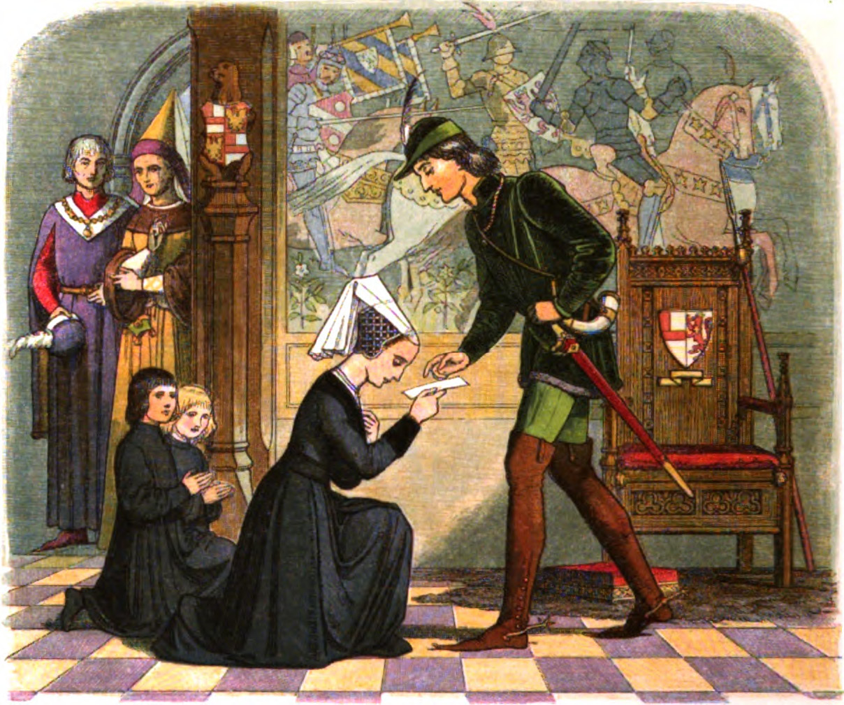 Edward IV meets his wife-to-be, Elizabeth Grey.